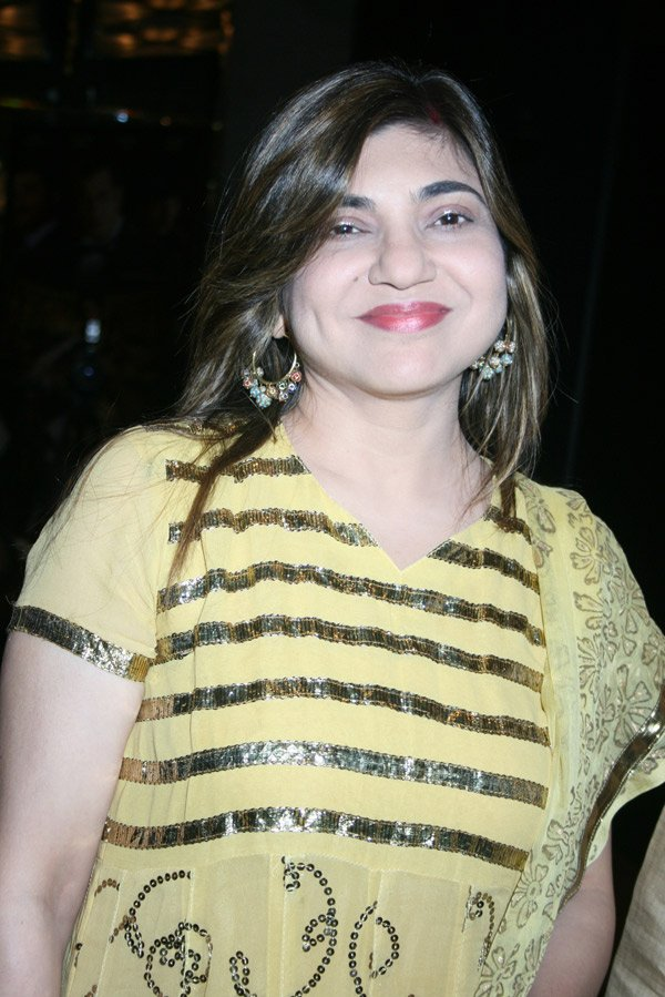 Alka Yagnik at the 2008 audio release for Yuvraaj.